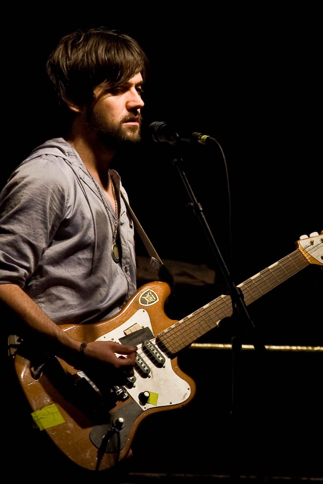 Conor Oberst performing at Sunset Junction in Los Angeles in 2009. Teisco TG-64 / ET-320 (released in 1964[1]) [2]